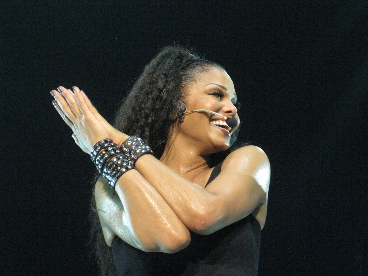 Janet Jackson on her Number Ones Tour, Royal Albert Hall, London. July 3, 2011